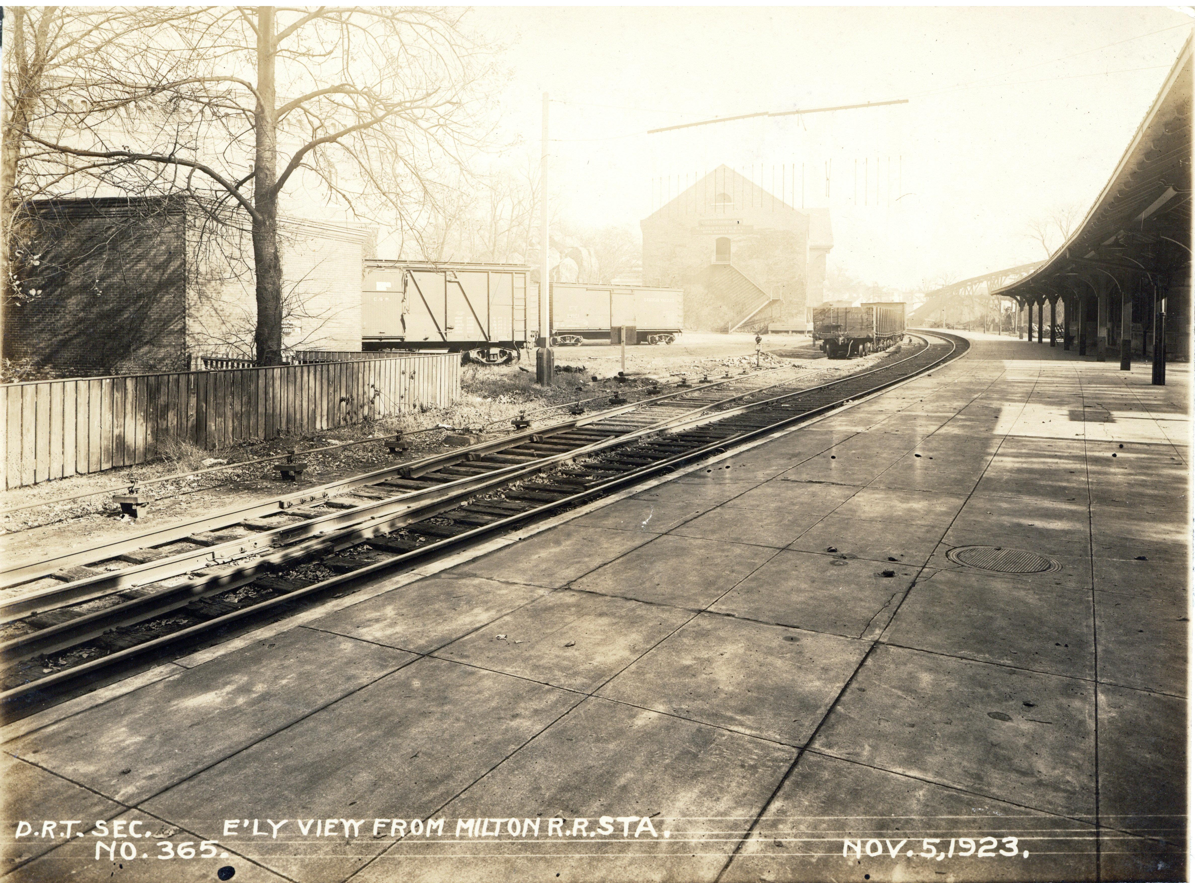 Looking east at Milton station in 1923, shortly before the line was converted to a high-speed trolley line